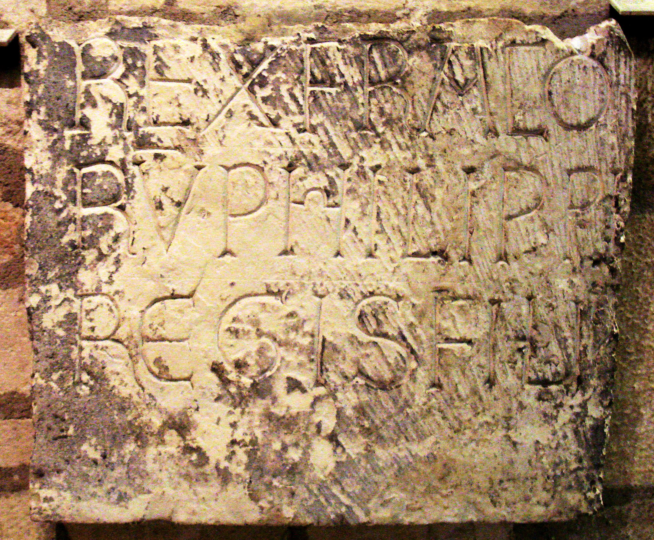 Epitaph_of_Louis_VI_after_1137_Saint_Denis_church_today_at_Cluny